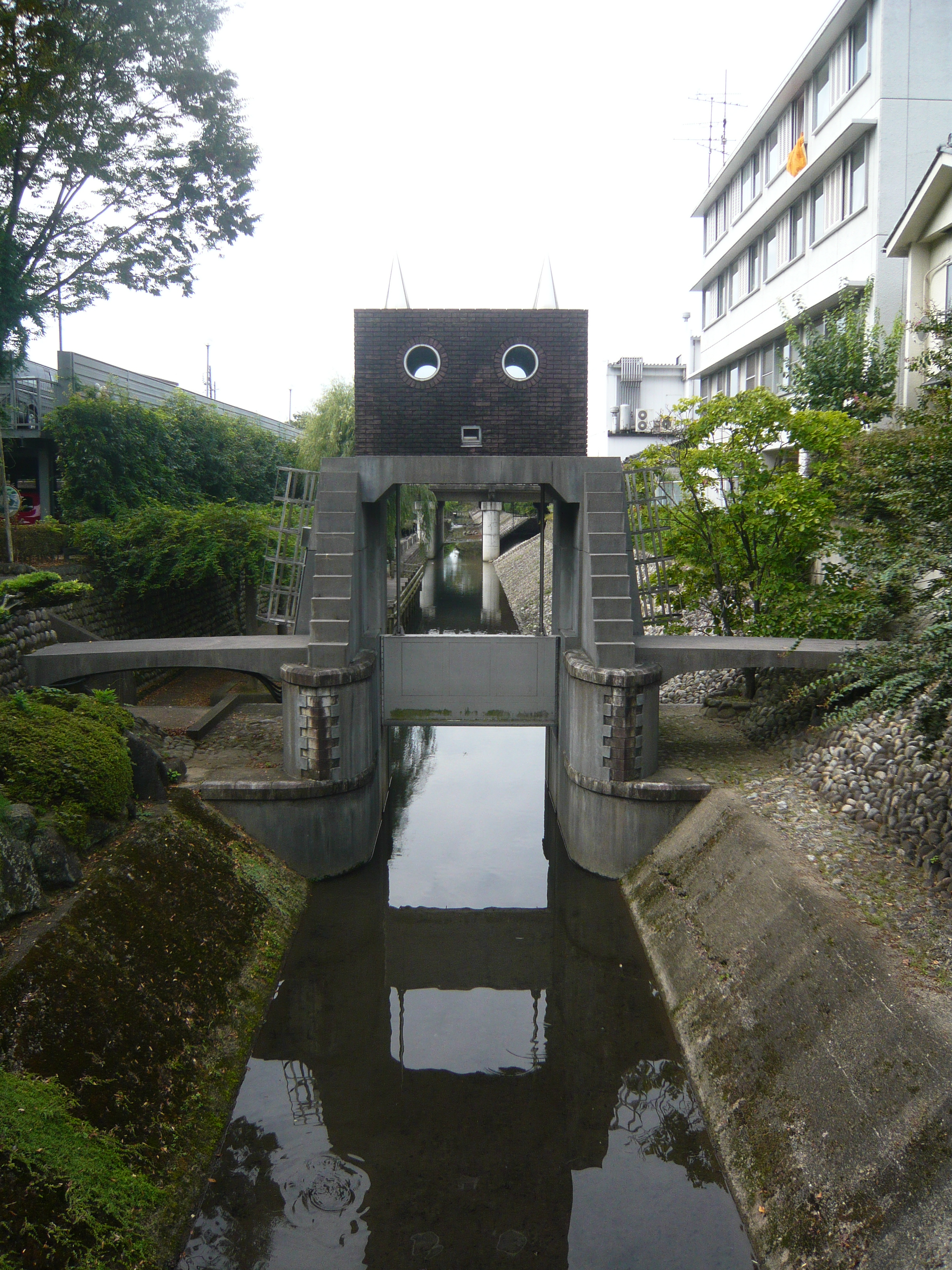 Minato Community Watercourse 湊コミュニティ水路（湊コミュニティ水路）,Gifu,Gifu,Japan（岐阜県岐阜市）で撮影。ロボット水門